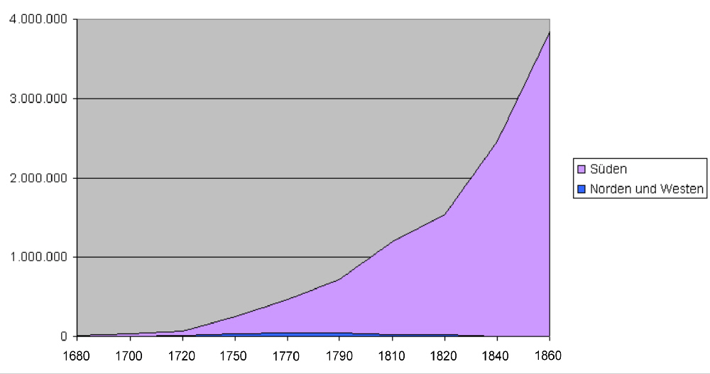 Chart: Numbers of slaves in the USA, North/West - South, 1680 thru 1860; data source: Ira Berlin: Generations of Captivity: A History of African-American Slaves, Cambridge, London: The Belknap Press of Harvard University Press, 2003, ISBN 0-674-01061-2